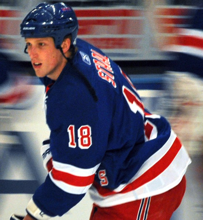 Marc Staal warming up before March 24, 2010 game against the New York Islanders at Madison Square Garden